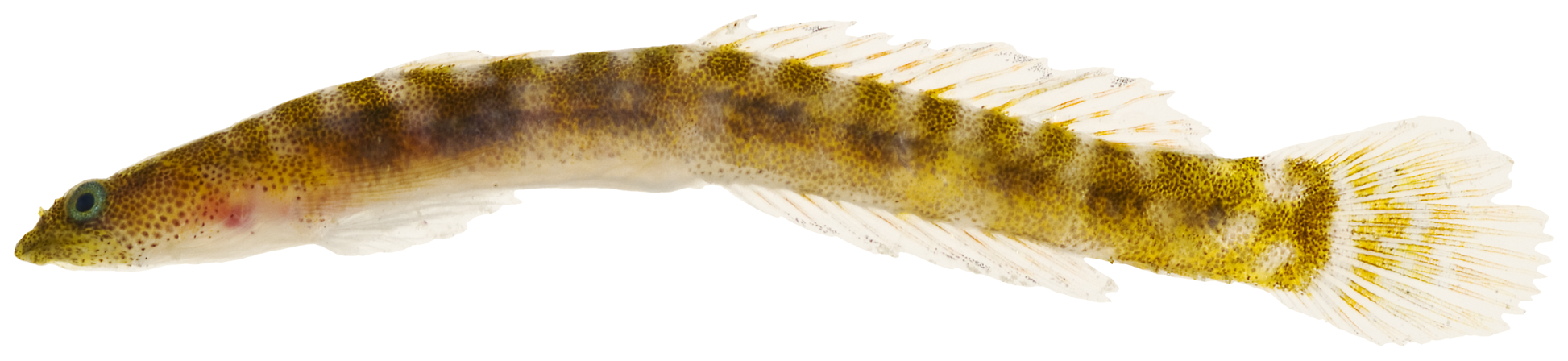 Evermannichthys metzelaari Hubbs, 1923 —roughtail goby, 21.0 mm SL. Photo by JT Williams.